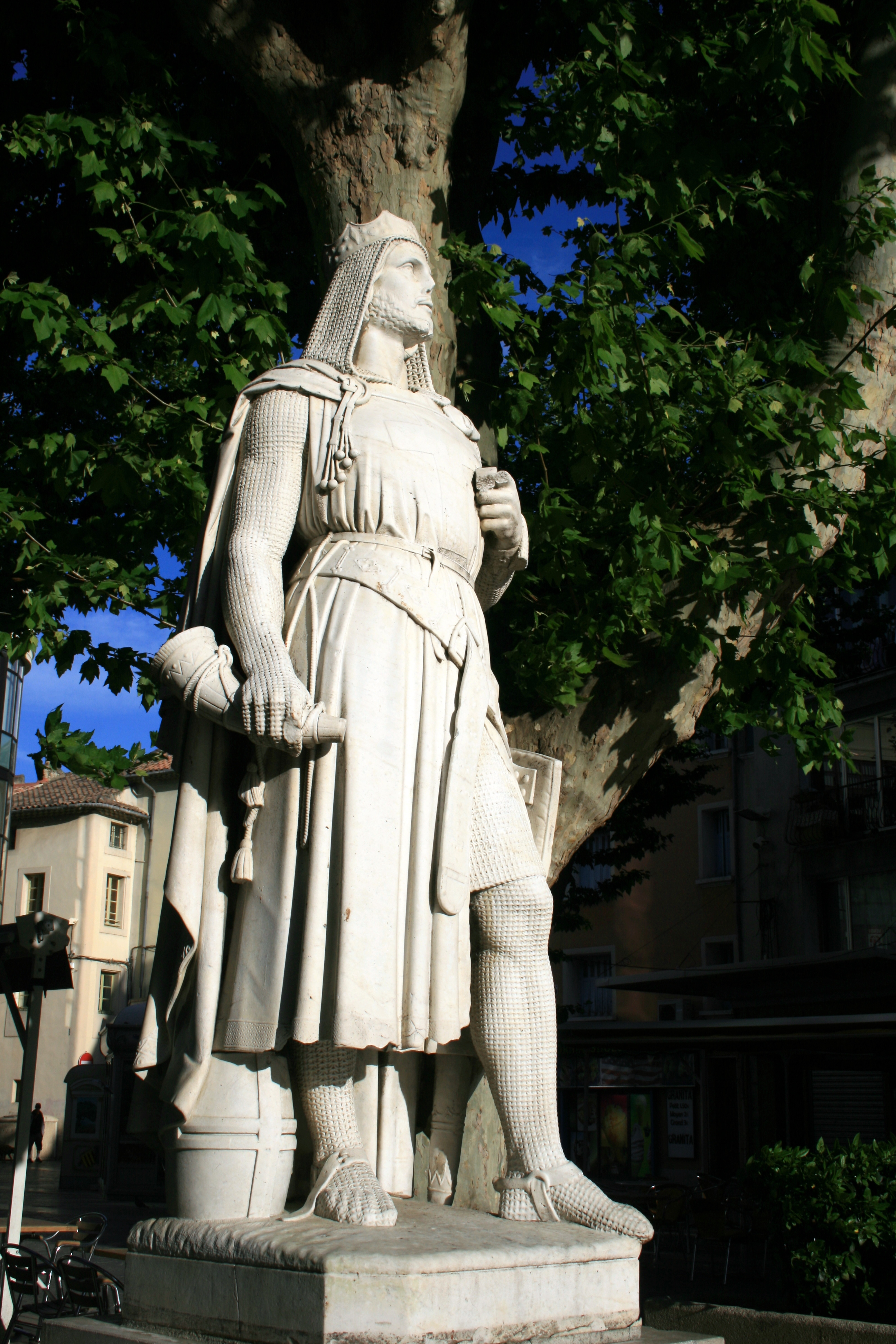 statue of Rambaud IId